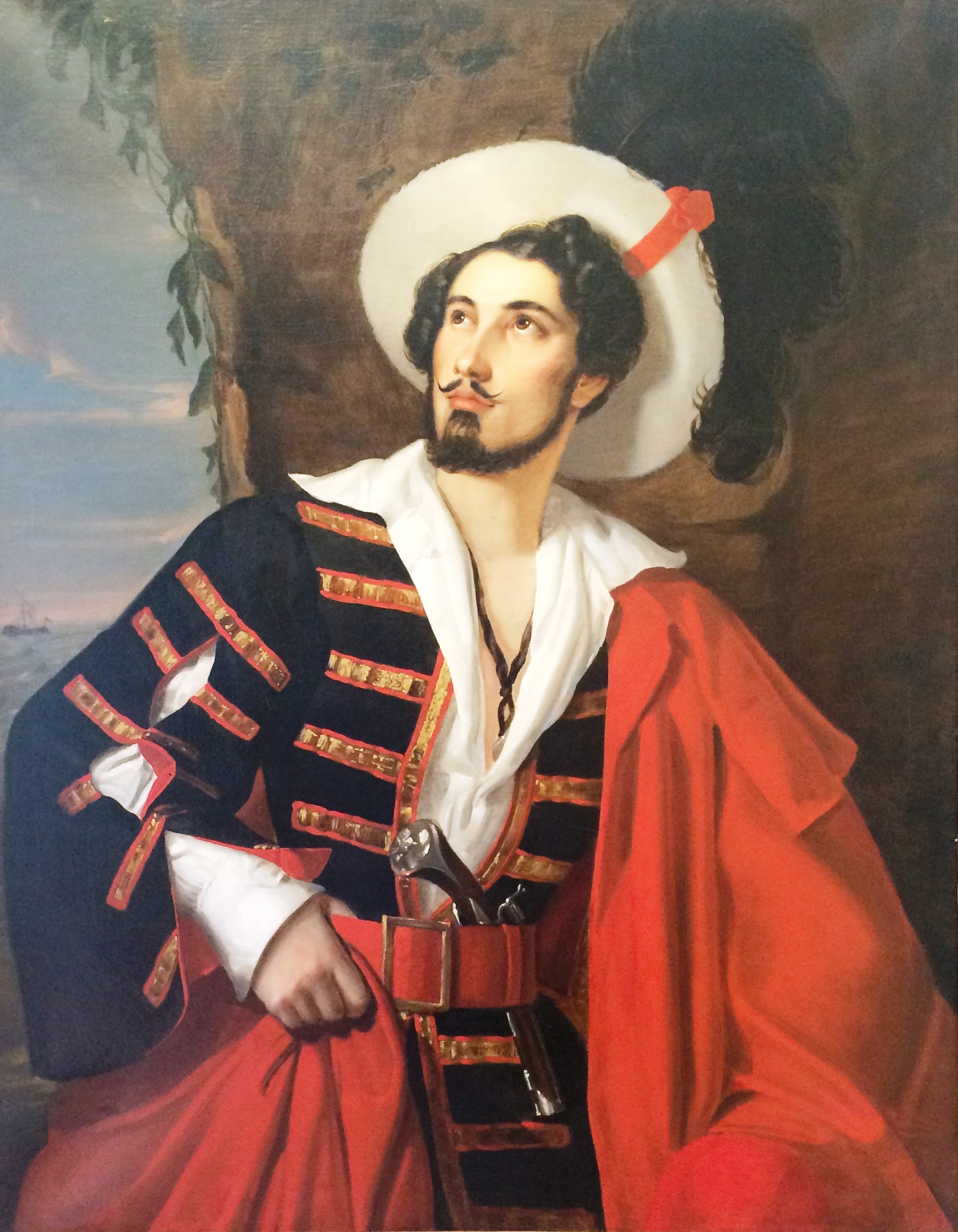 Painting by hungarian painter Janos Alajos Hora , depivting the actor Marton Lendvay jr in a dramatic role as "Zamba". Painted in the 1860s.